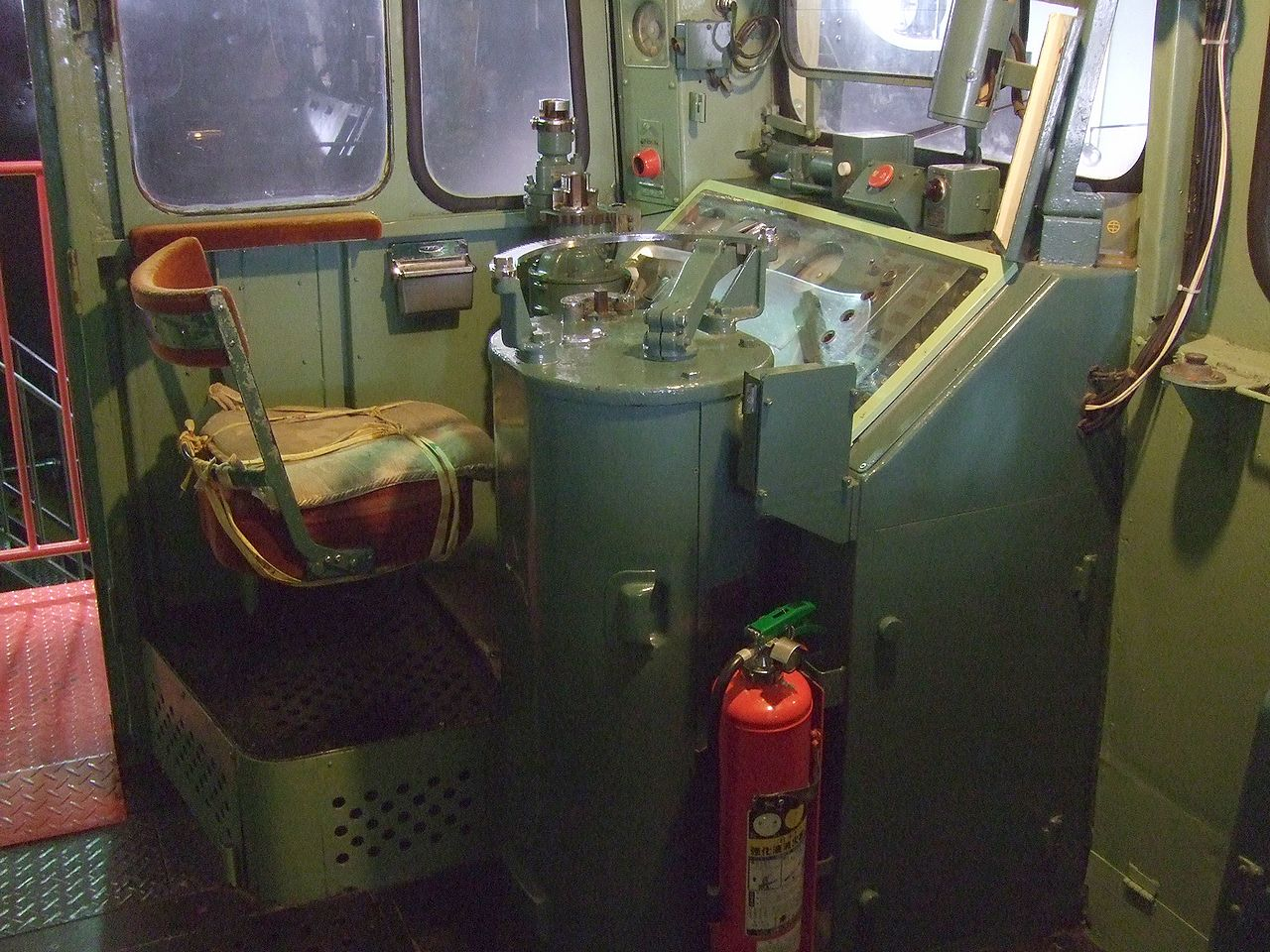 The driving cab of JNR Class ED70 electric locomotive ED70 1 at Nagahama Railway Square in Nagahama, Shiga, Japan